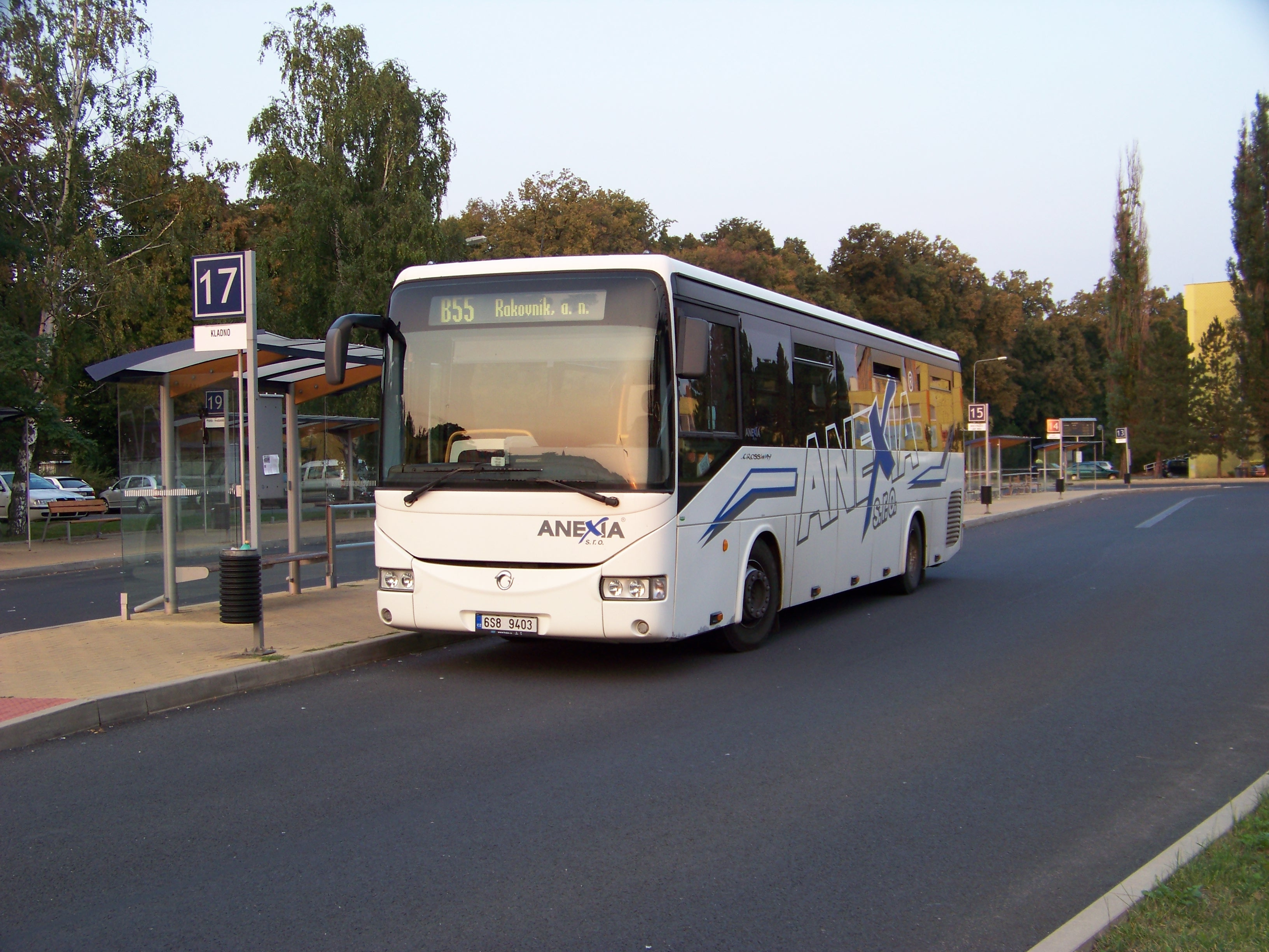 Rakovník II, Rakovník District, Central Bohemian Region, the Czech Republic. Bus station, a bus of Anexia.